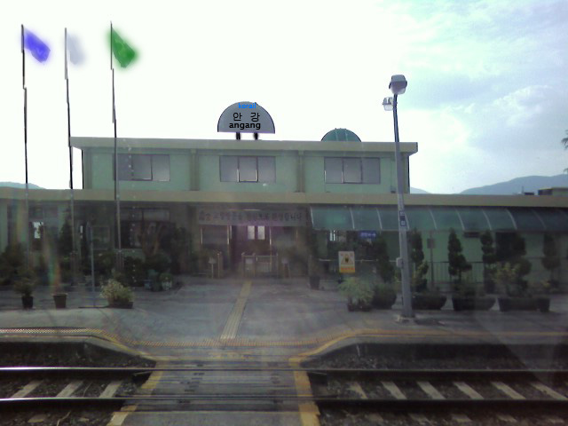 Angang Station